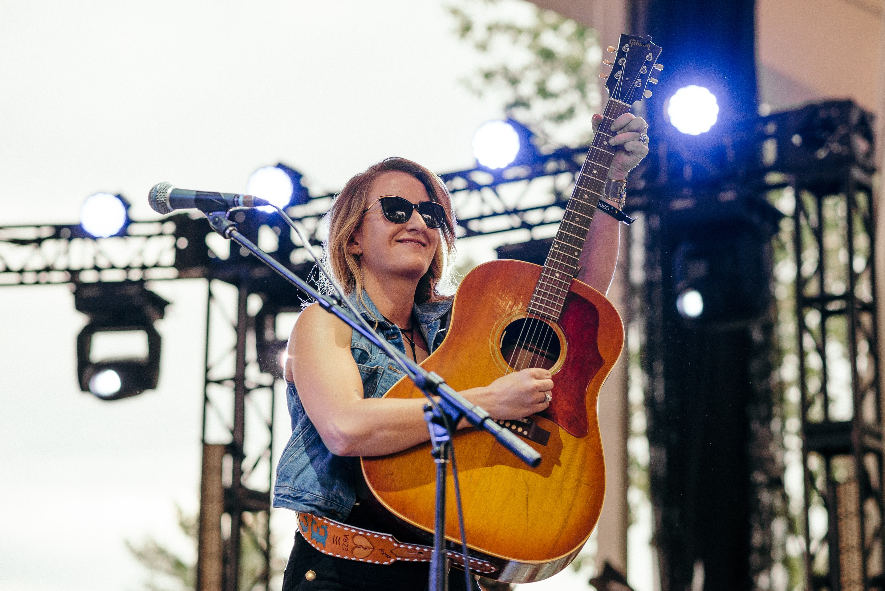 Margo Price